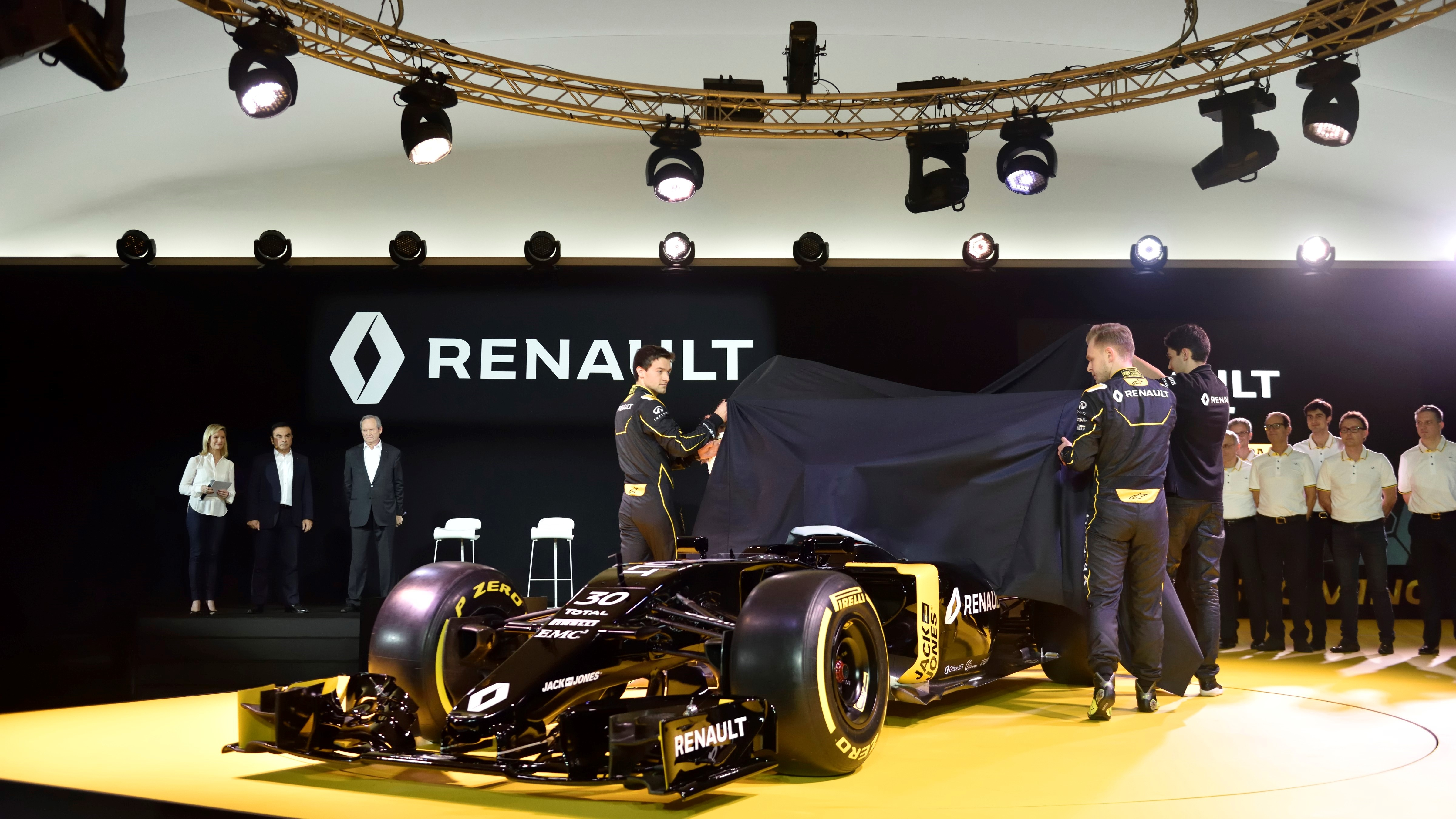 Launch of the new Renault RS16.